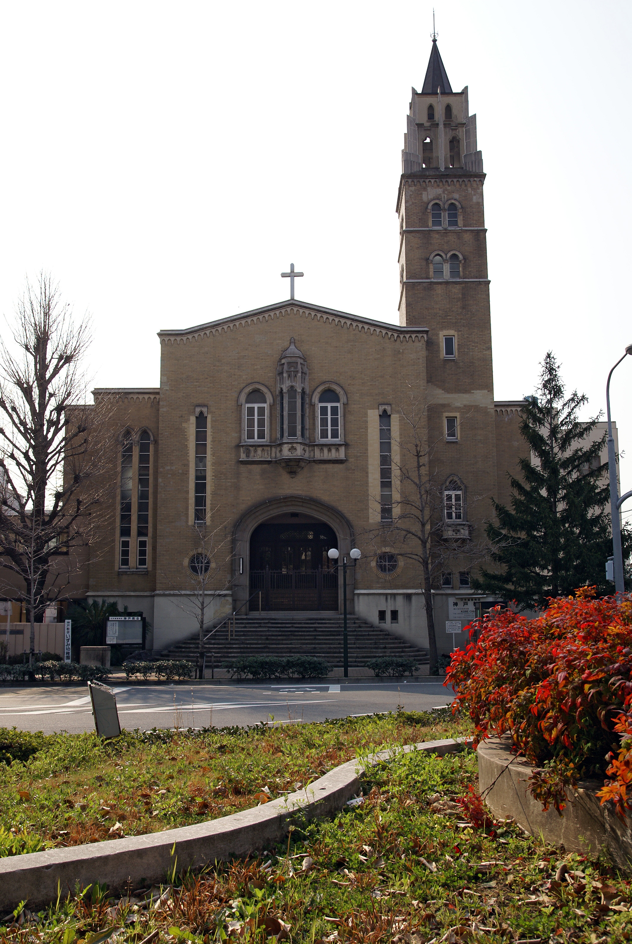 The Kobe Church, United Church of Christ in Japan, in Kobe, Japan